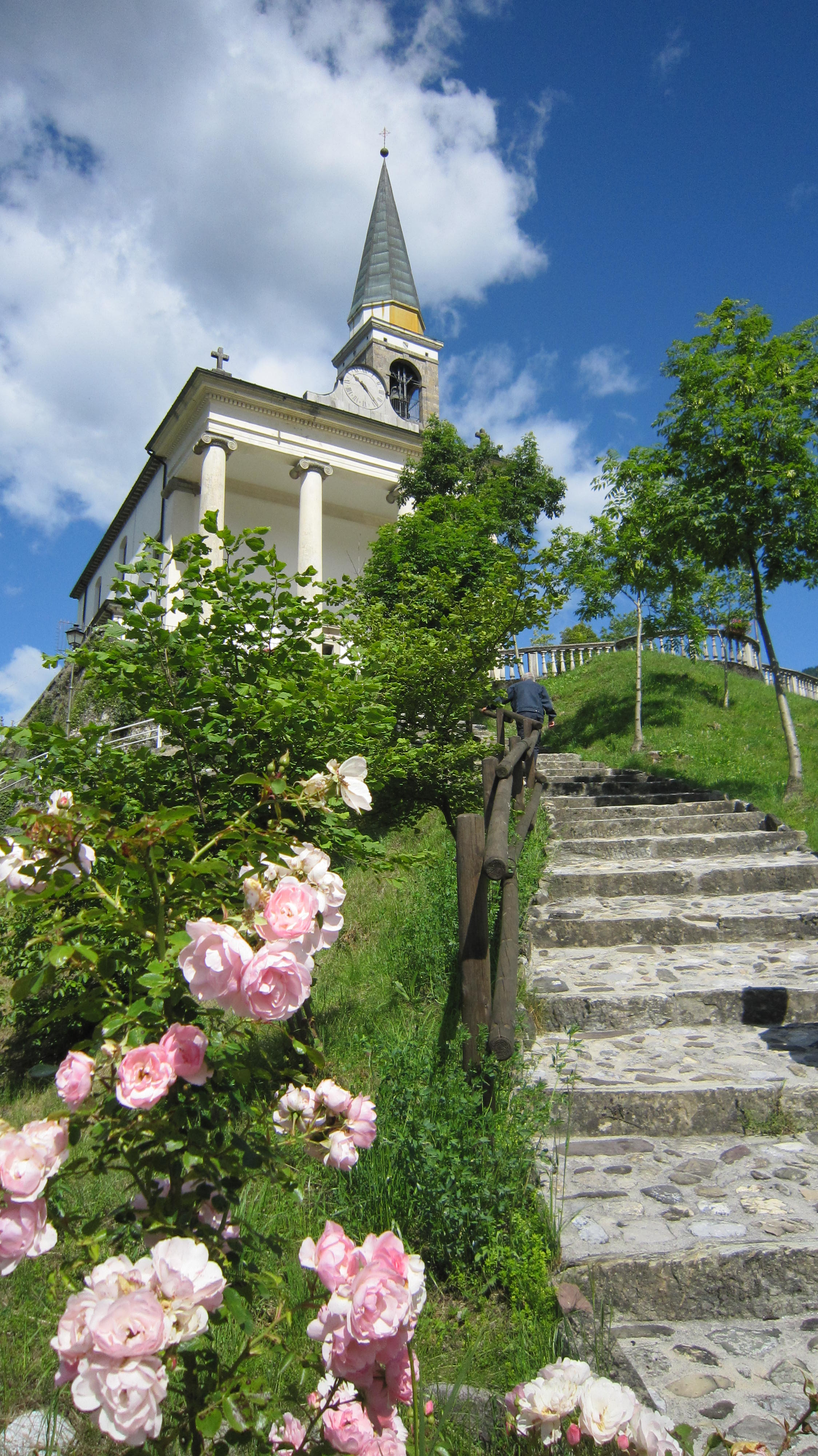 parrocchia paularo